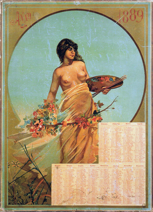 Calendar. Year: 1889. Country: Italy.